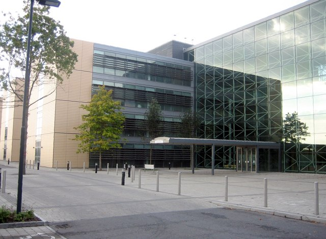 County Council Offices Main entrance Blanchardstown Offices of Fingal County Council.